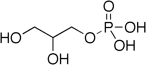 chemical structure of glycerol-3-phosphate